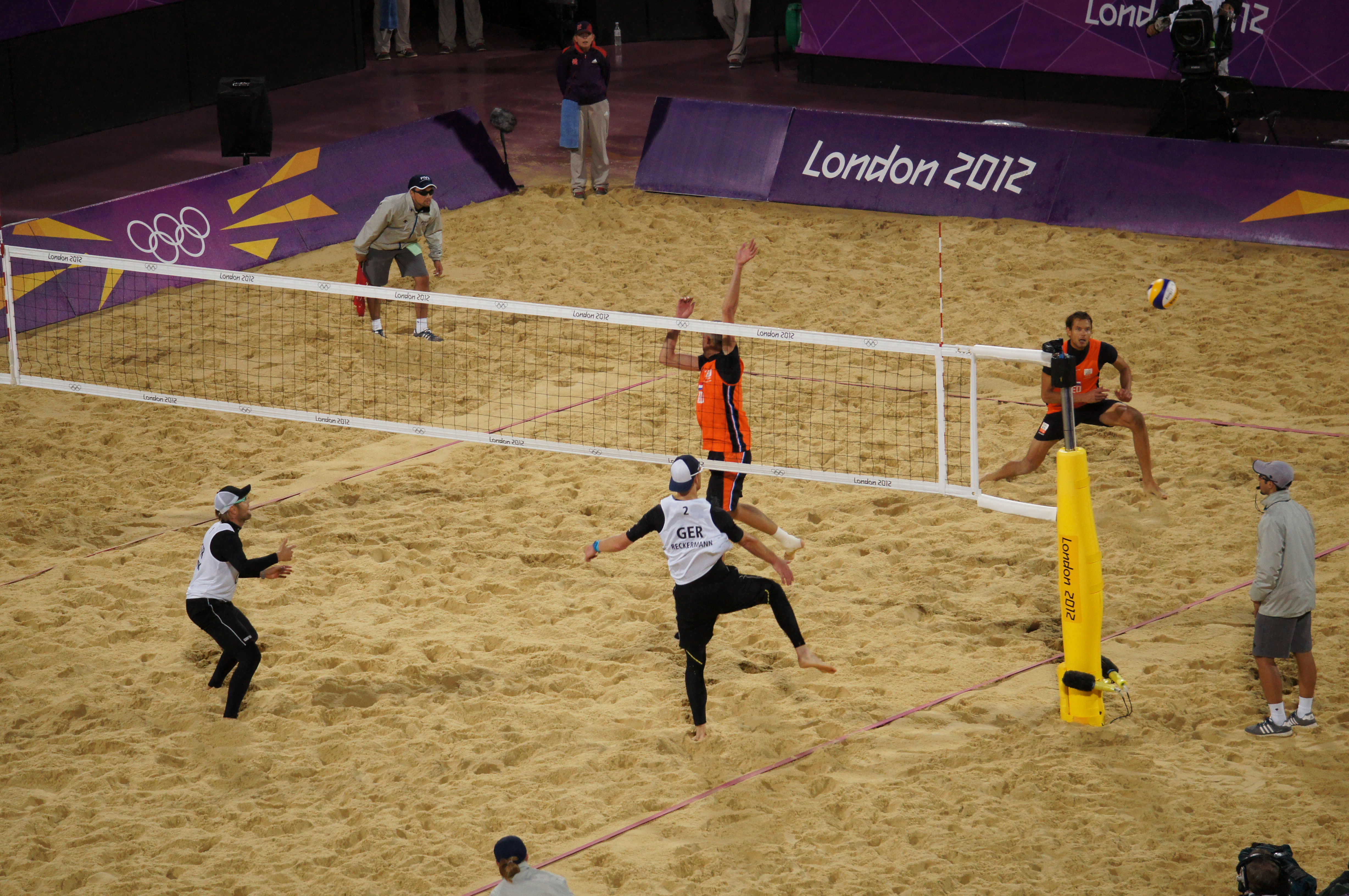 London 2012 Beach Volleyball Germany v Netherlands